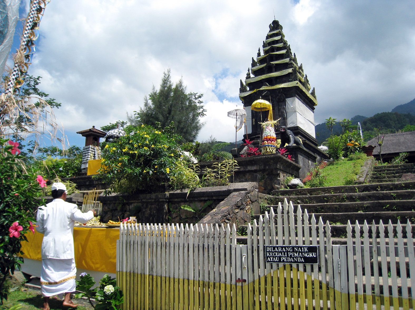 A Candi (shrine) dedicated to King Siliwangi of Sunda Kingdom, Hindu Balinese temple of Pura Parahyangan Agung Jagatkartta, Taman Sari, Bogor, West Java, Indonesia.